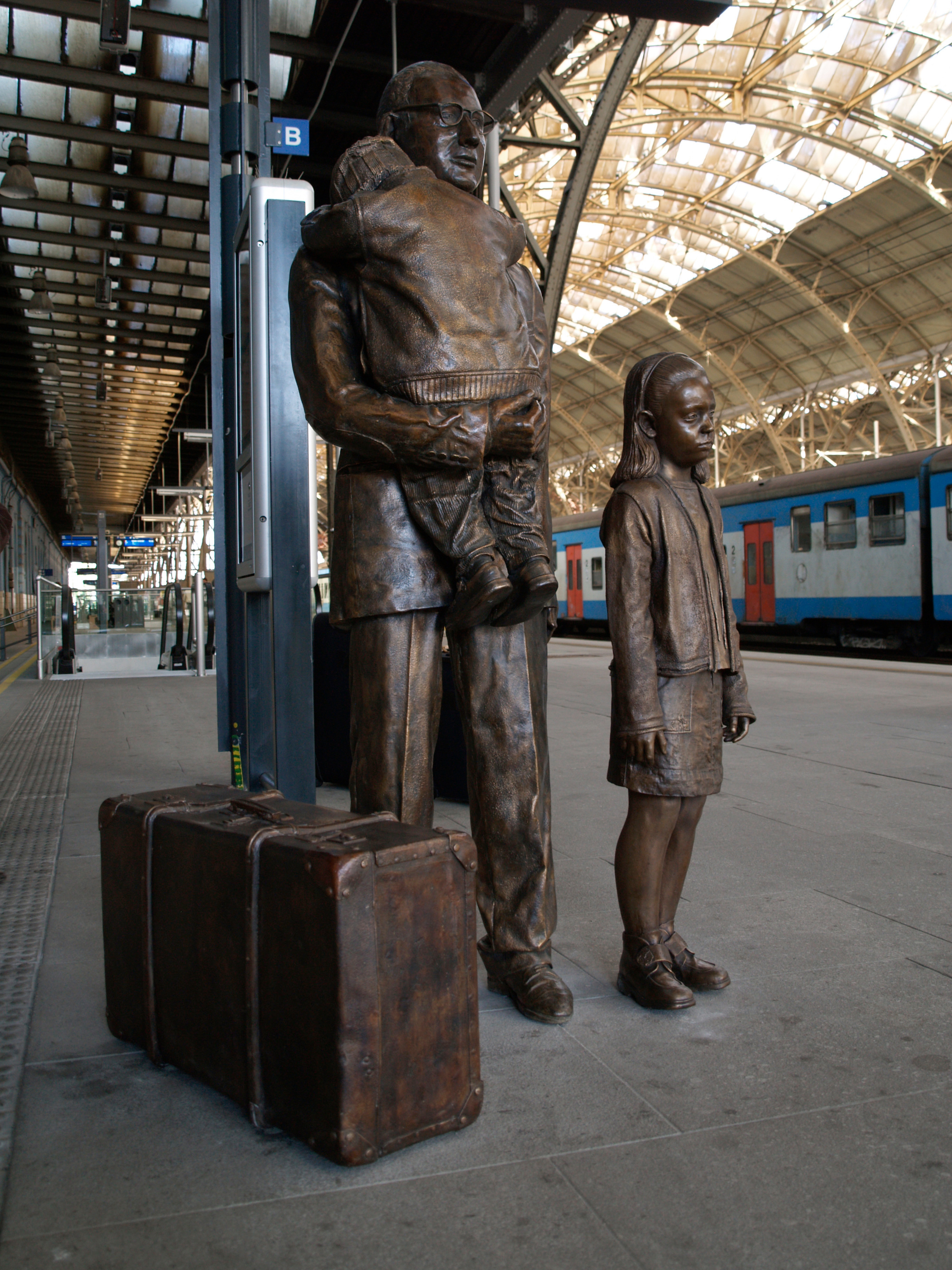 Memorial of Nicholas Winton, the saviour of 669 jewish children from former Czechoslovakia; located in Prague Main railway station, installed 2009-SEP-01, sculptor Flor Kent (her other sculpture “Für Das Kind Kindertransport Memorial” was installed in the Liverpool Street station, September 2003)